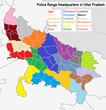 Police Ranges of Uttar Pradesh